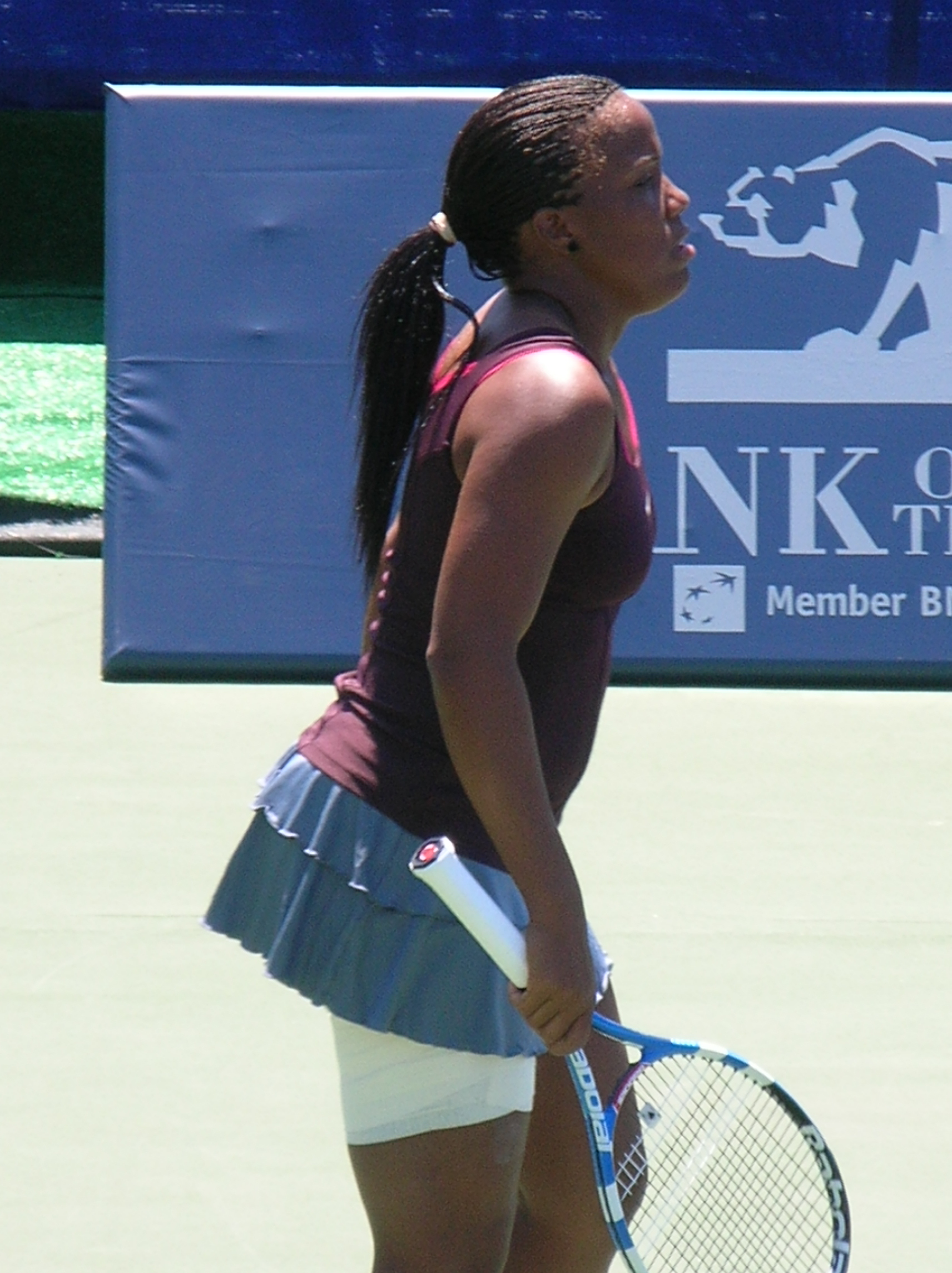 Mashona Washington in the second round of qualifying at the Bank of the West Classic at Stanford. She defeated Alison Riske 6-1, 6-4.